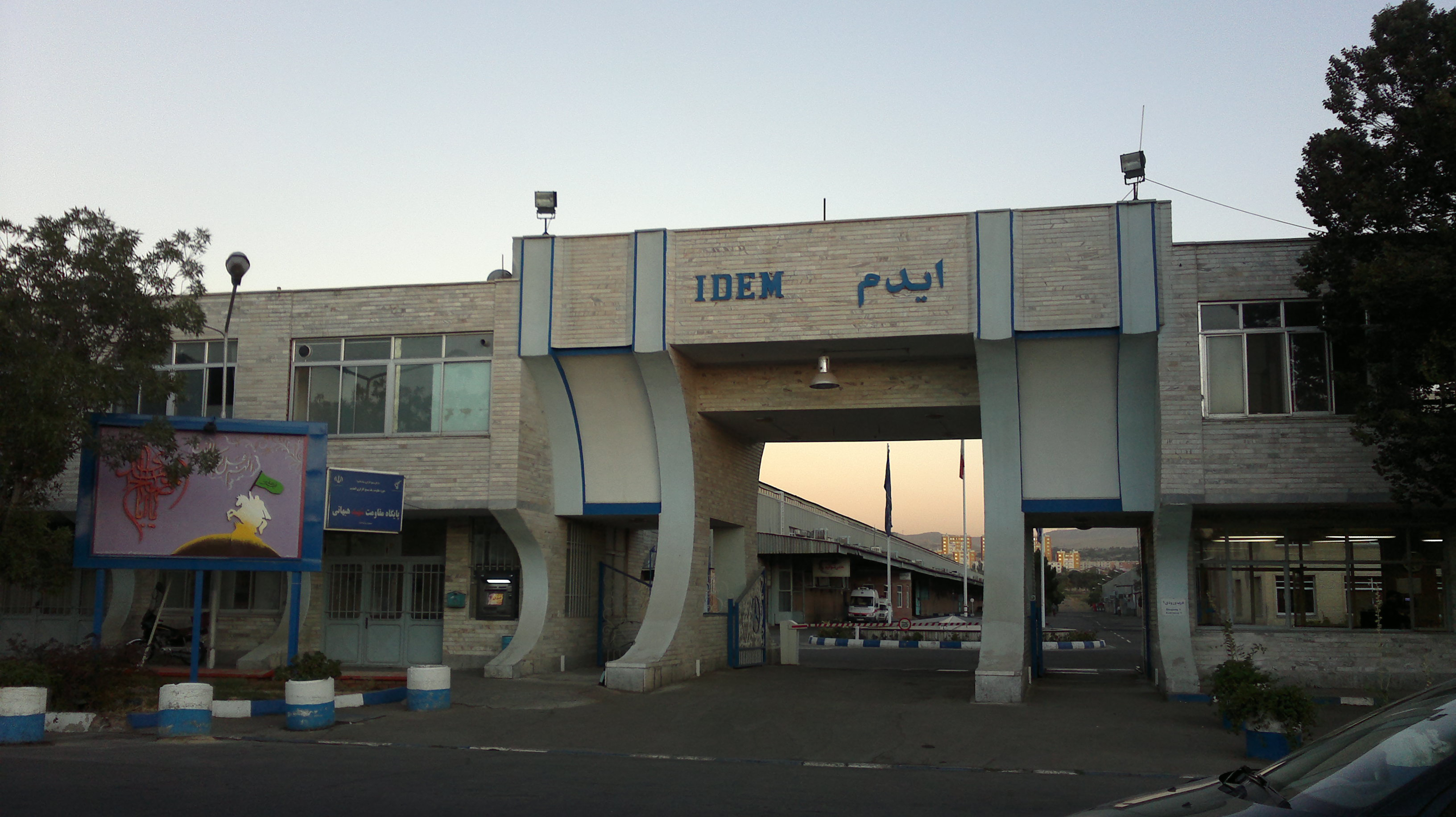 IDEM Factory in Industrial area of Shanbeghazan - Tabriz